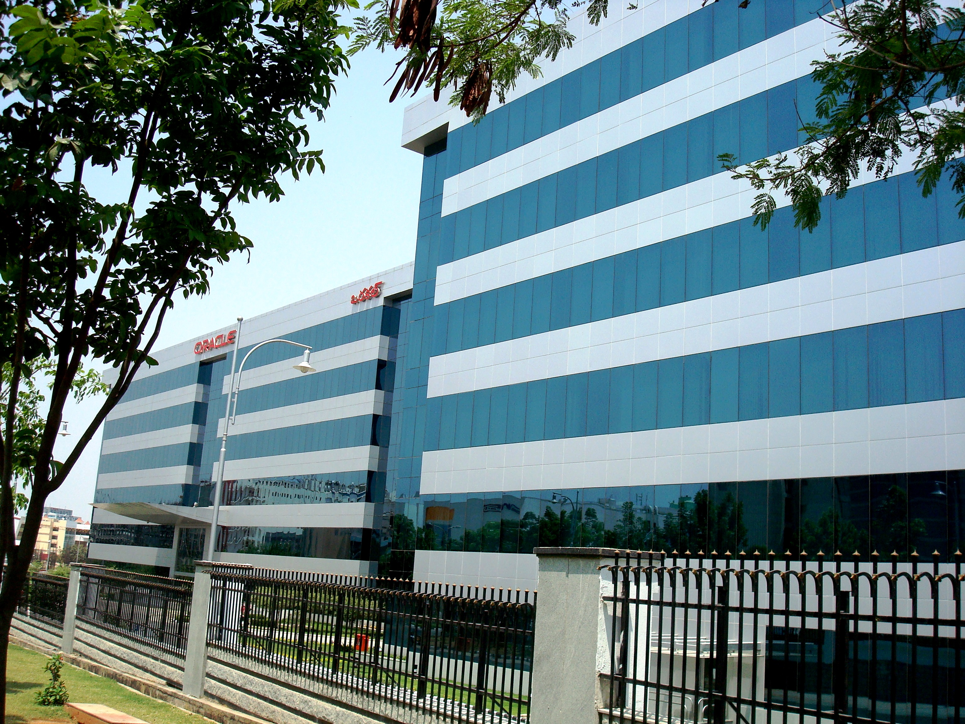 This image shows the Oracle campus located at Hitec city. self-photographed.